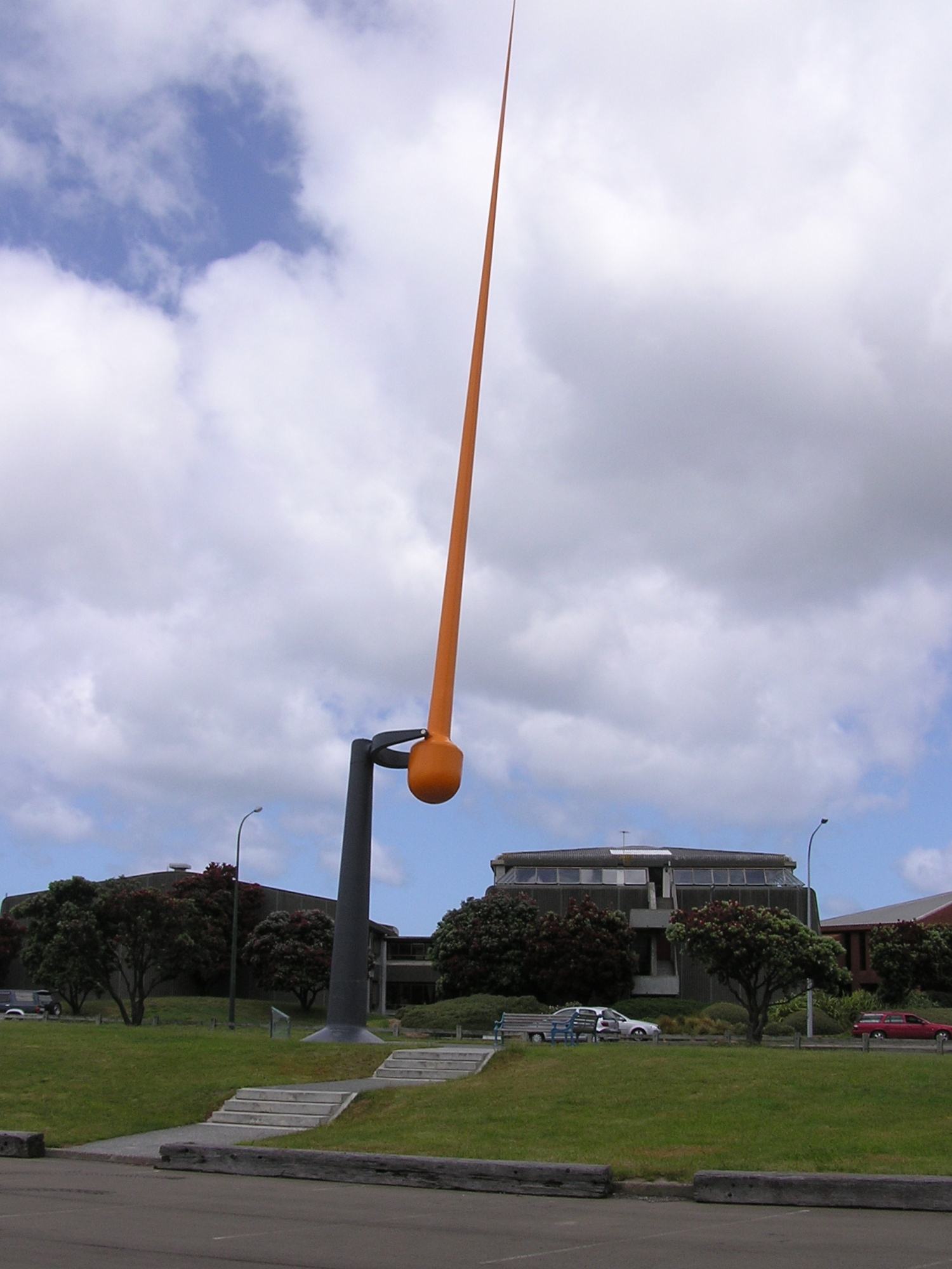 "Zephyr" kinetic wind sculpture, by Phil Price, installed in Wellington, New Zealand. Like a wind gauge the needle like sculpture sways back and forth in the wind depending upon the wind strength.